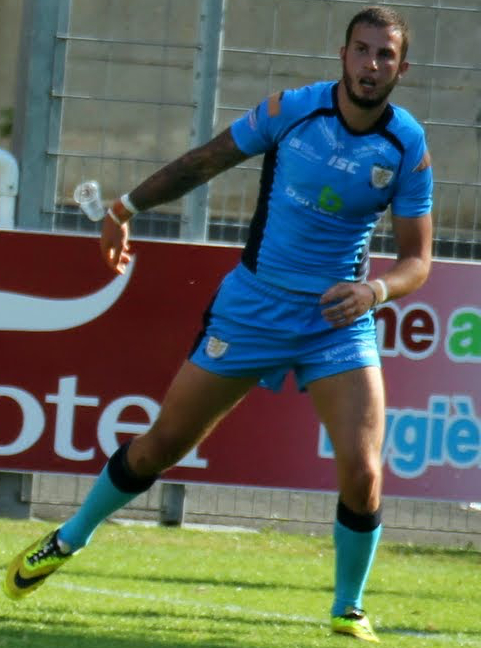 Ben Crooks